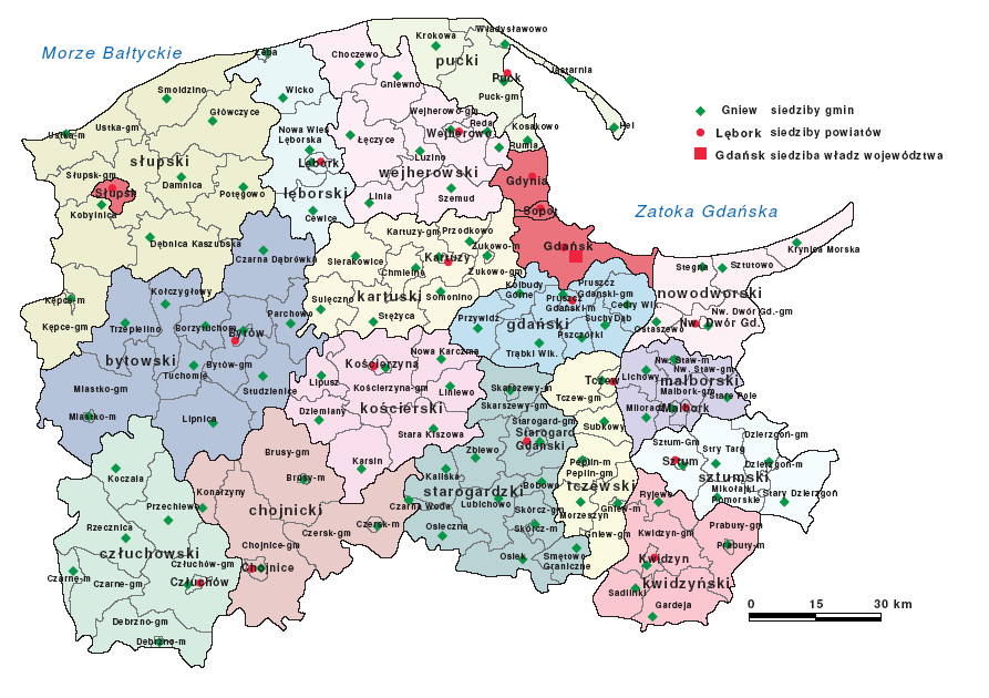 Map with administrative division of Pomeranian Voivodeship, with municipalities (gmina) and counties (powiat)